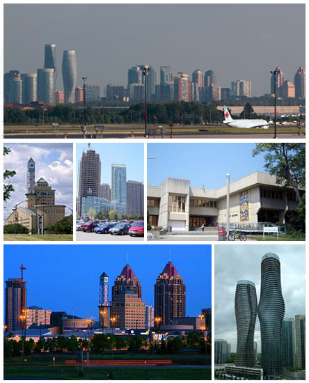 A montage of Mississauga. Going clockwise from top, the Mississauga Skyline, University of Toronto in Mississauga, Absolute World Towers, Mississauga Downtown Skyline, Mississauga Town Hall, and Mississauga Condominium Skyline.